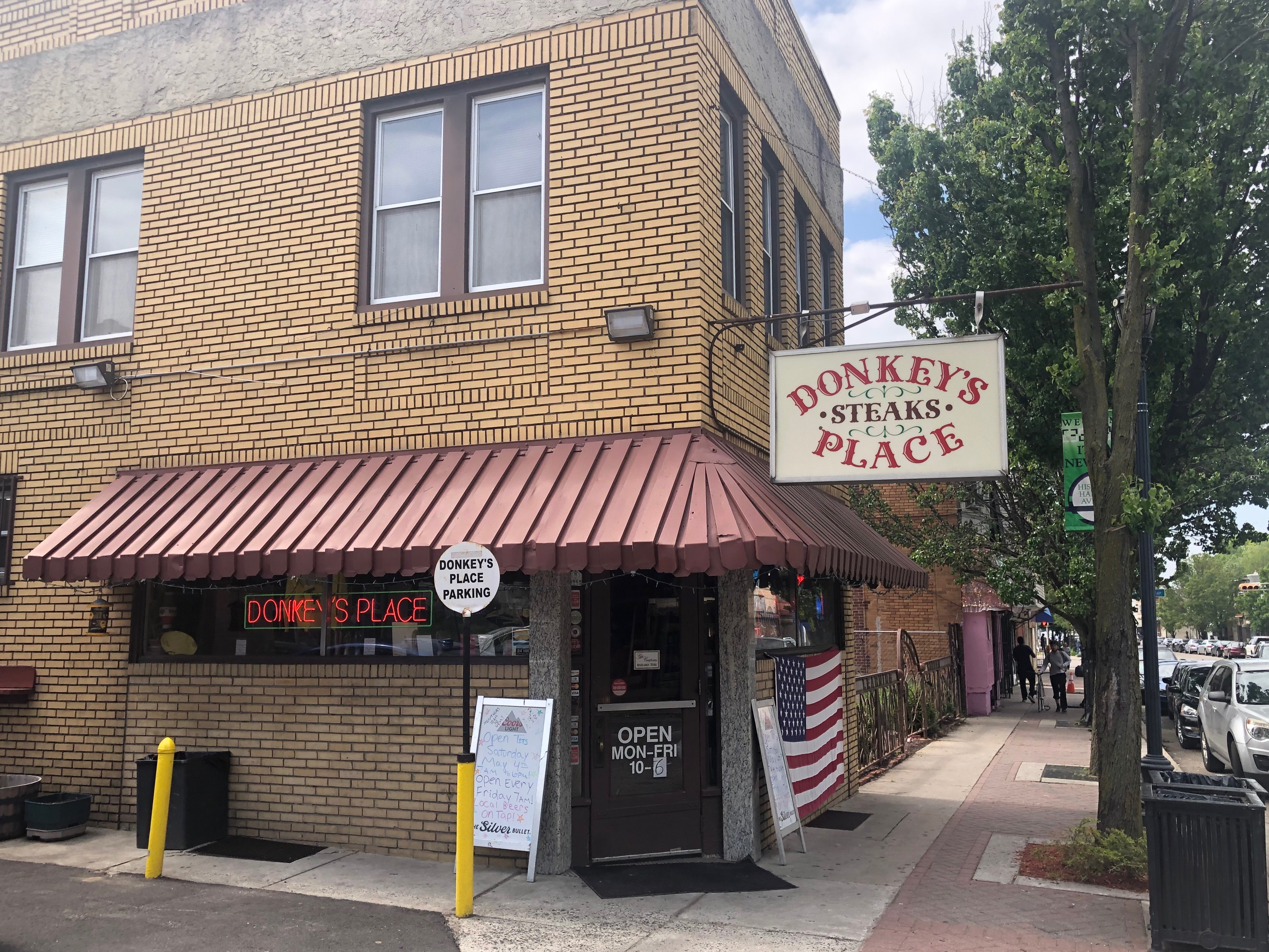 Picture of the front of Donkey's Place.